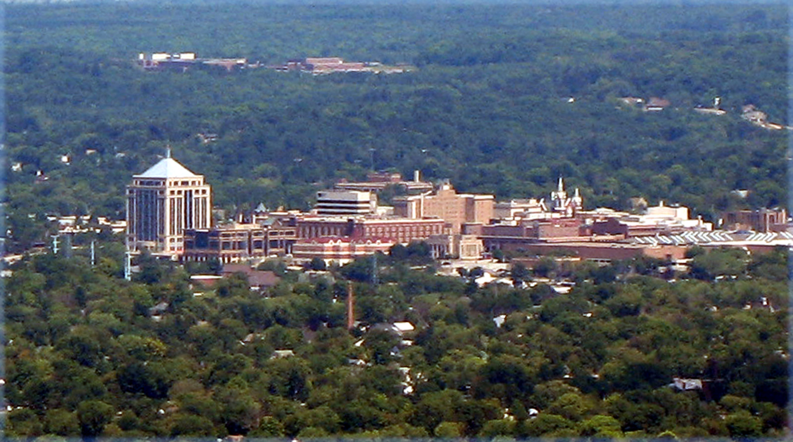 View of Downtown Wausau from Rib Mountain, Wisconsin, United States.